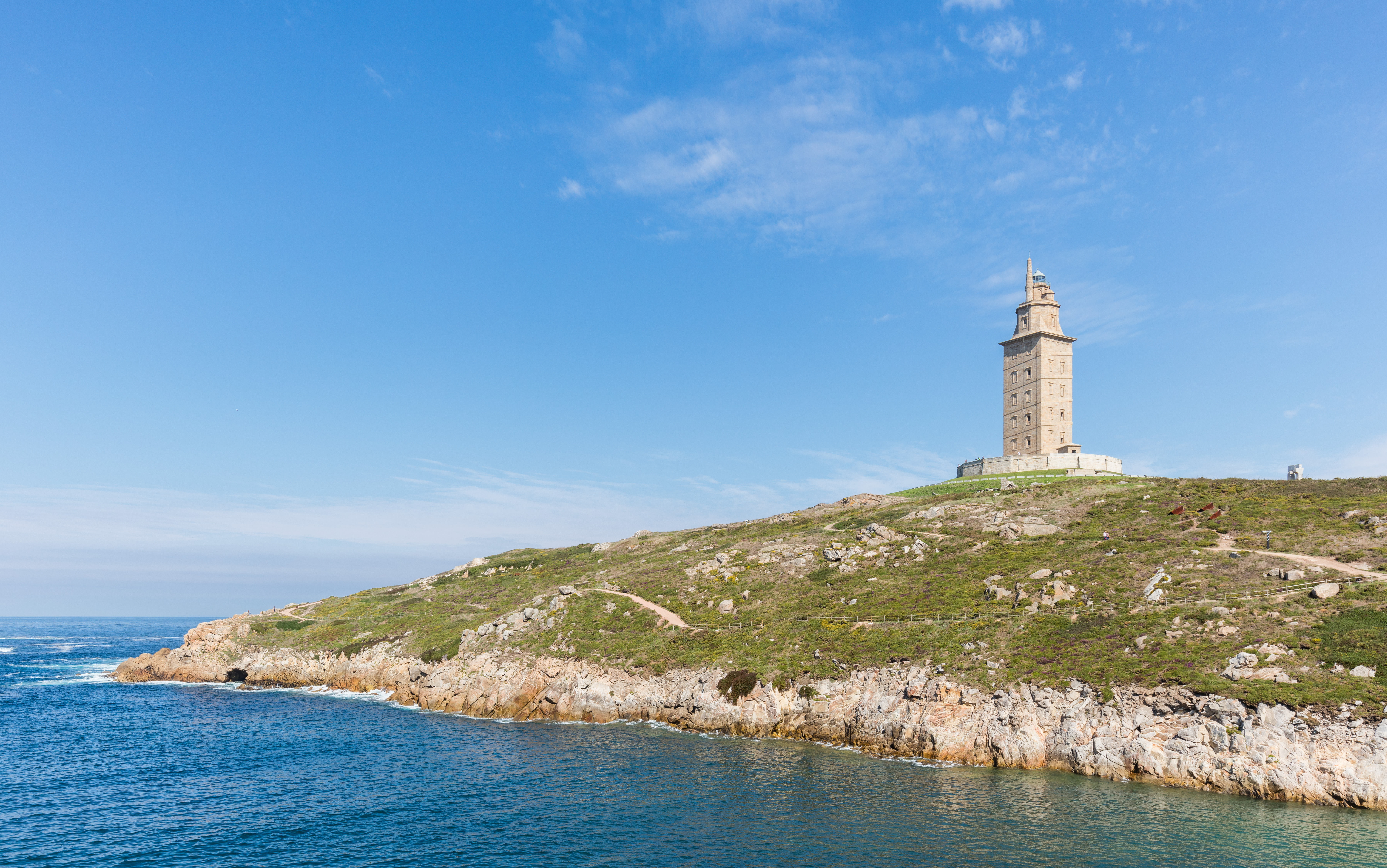 Hercules Tower, La Coruña, Spain